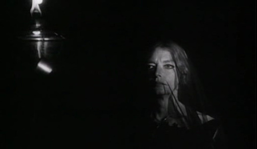 Marjorie Cameron in Night Tide